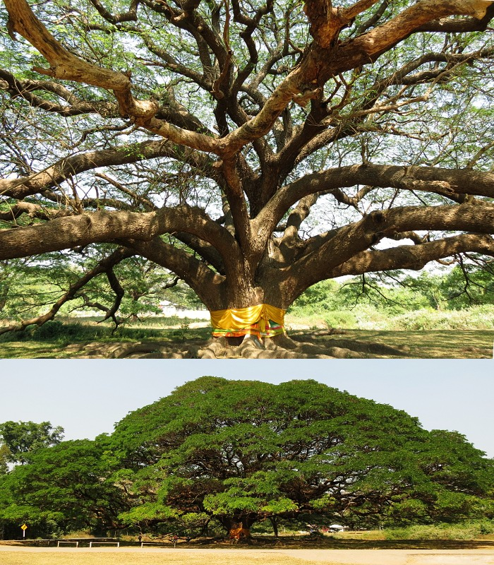 Chamchuri-yak, a giant raintree specimen near Kanchanaburi, Thailand